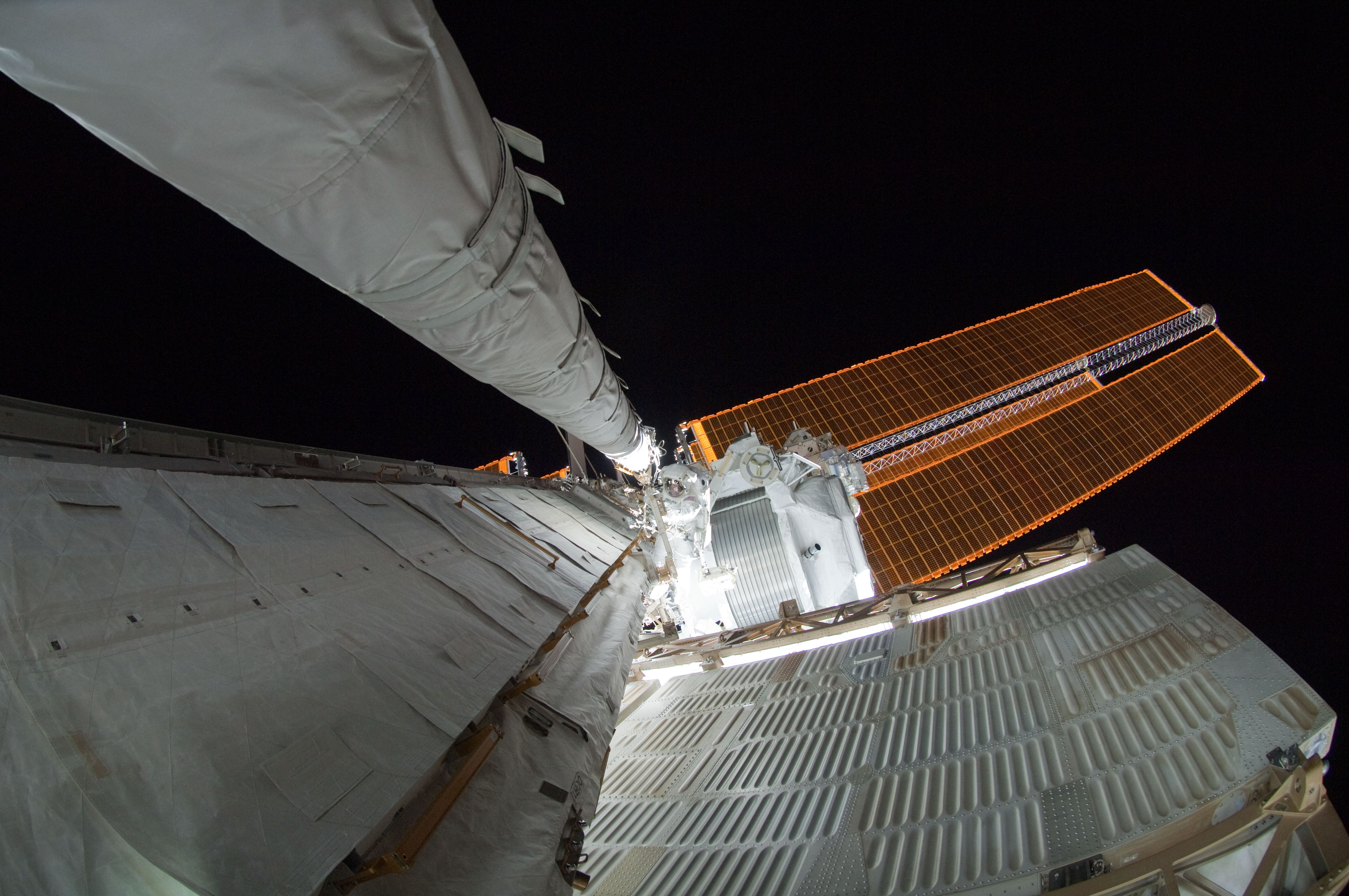 A fish-eye lens attached to an electronic still camera was used to capture this image of NASA astronaut Michael Fincke (center frame) during the mission's fourth session of extravehicular activity (EVA) as construction and maintenance continue on the International Space Station. During the seven-hour, 24-minute spacewalk, Fincke and astronaut Greg Chamitoff (out of frame), both STS-134 mission specialists, completed the primary objectives for the spacewalk, including stowing the 50-foot-long boom (top left) and adding a power and data grapple fixture to make it the Enhanced International Space Station Boom Assembly, available to extend the reach of the space station's robotic arm.